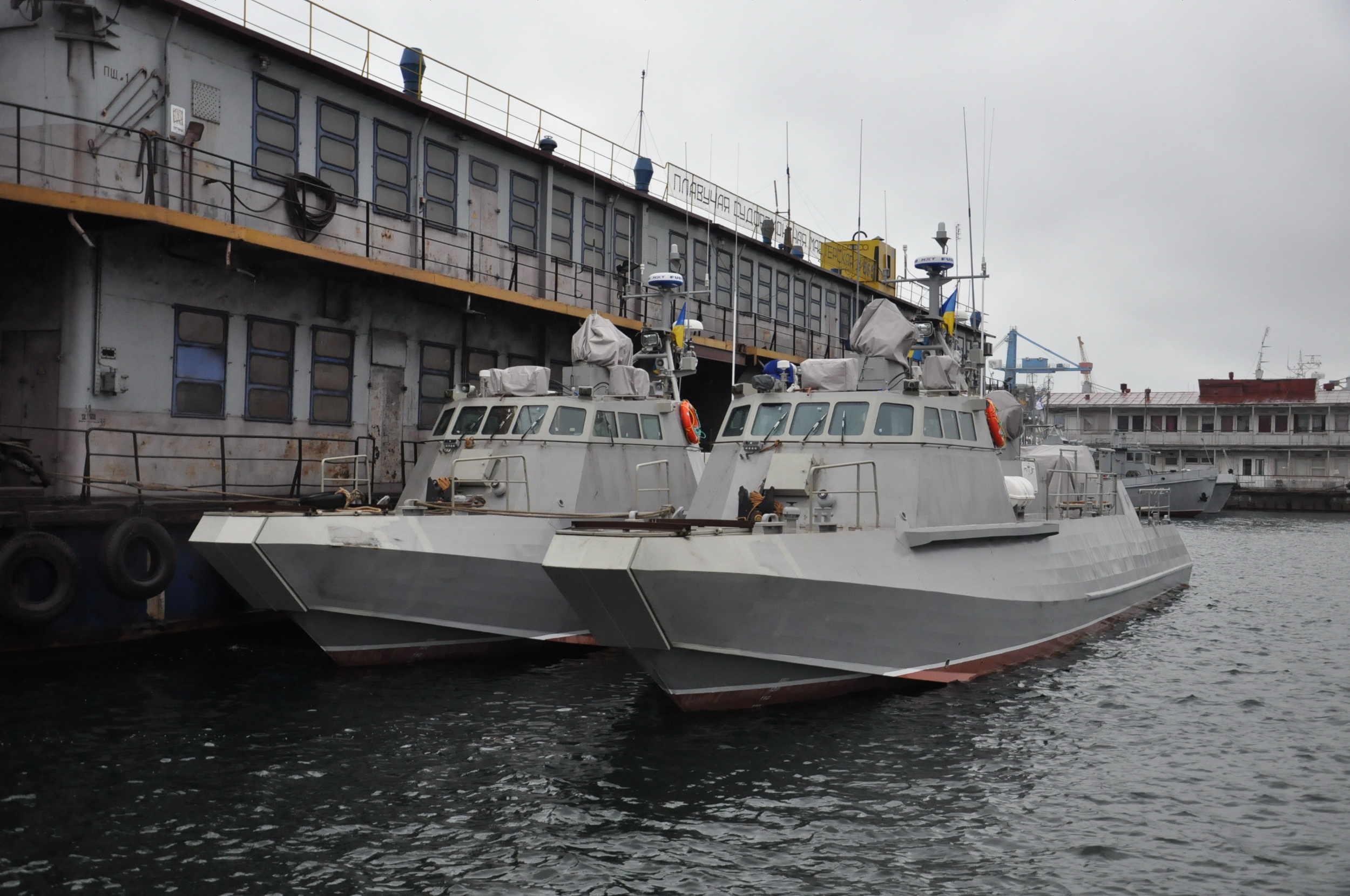 Centaur-class landing boats (Ukraine)